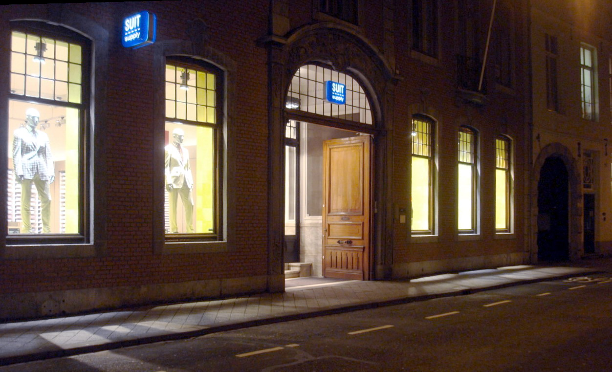 Shop by night in Bredestraat, Maastricht, the Netherlands.